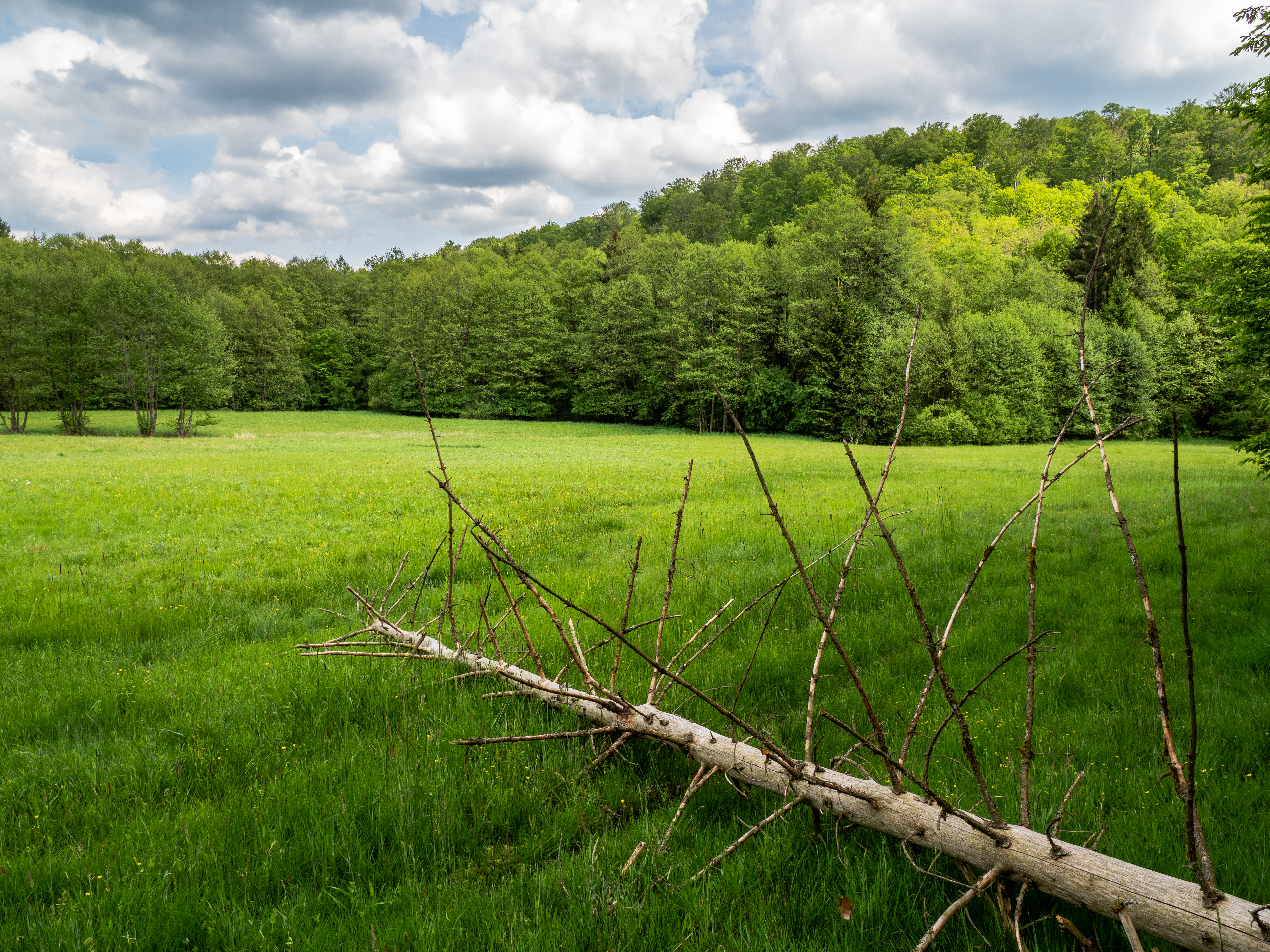 Schulterbachtal in the northern Steigerwald